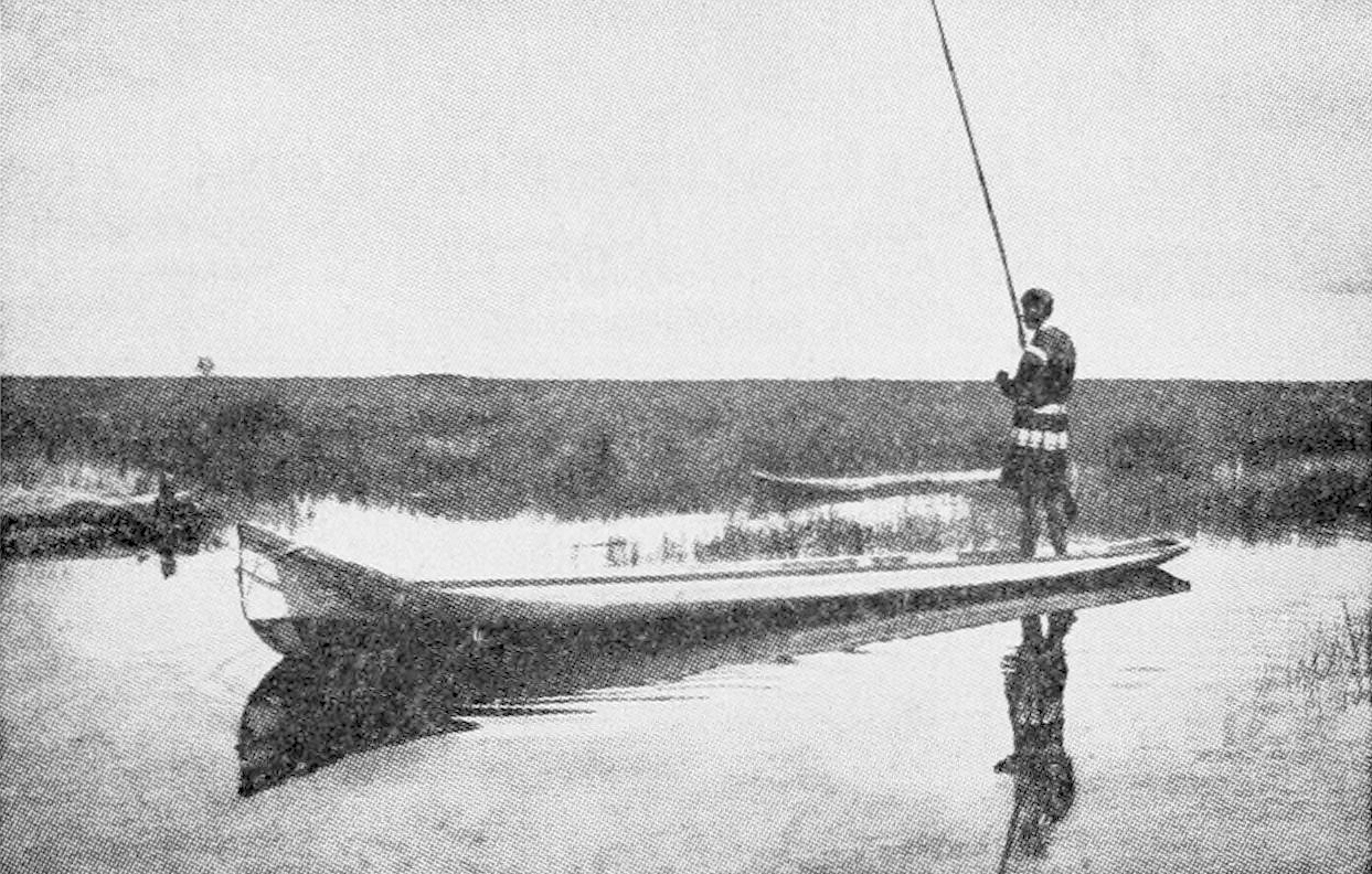 A Seminole in the Florida Everglades. Identifier: whattoseeinameri00john Title: What to see in America Year: 1919 (1910s) Authors: Johnson, Clifton, 1865-1940 Subjects: United States -- Description and travel Publisher: New York, The Macmillan Company London, Macmillan and Co., limited Text Appearing Before Image: Picking Orange;- Florida 201 Text Appearing After Image: marshal of France whom Napoleon made King of Naples,was a former resident of Tallahassee, and there you can seehis home. The mocking-birds are reputed to be more nu-merous in this vi-cinity than inany other part ofthe South. Fif-teen miles downtoward the Gulfis a wonderfulspring, the Wa-kulla, which sendsoff a full-grownriver of the samename from itssingle outburst. The entire region is full of remarkablesprings, caves, sinks, and natural bridges. Southeast ofTallahassee extends a vast belt of woods merging into analmost impenetrable swamp and tangle of undergrowth.This is a famous hunting-ground, and somewhere in thewatery jungle is the Wakulla Volcano, whence rises acolumn of smoke or vapor from a spot so far within theswamp that no one has been able to get to it. In the north-ern central part of the state is the Suwannee River, im-mortalized in that best loved of all plantation songs, TheOld Folks at Home. There are at least 30,000 lakes in Florida. They areparticularly numerous in